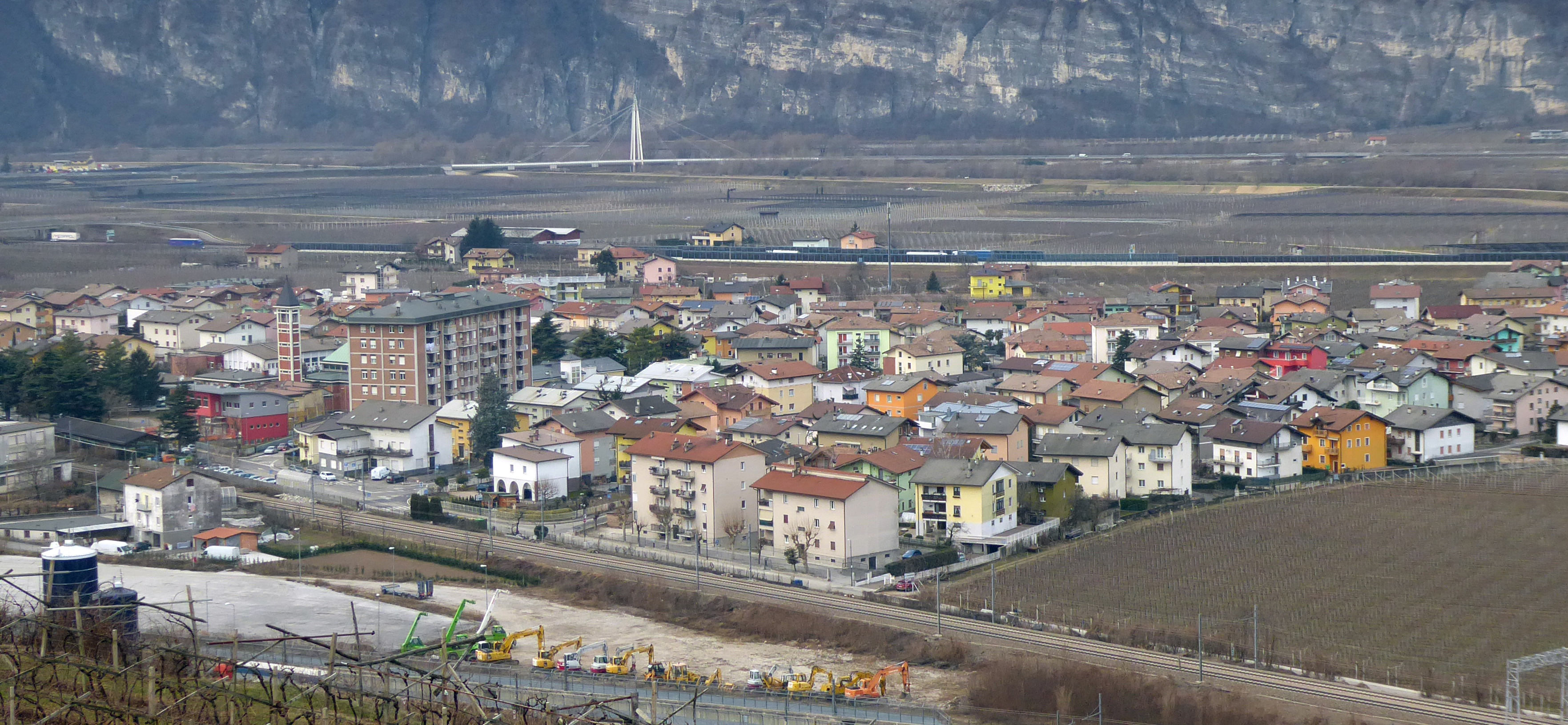 Zambana (Terre d'Adige) as seen from Pressano (Lavis)